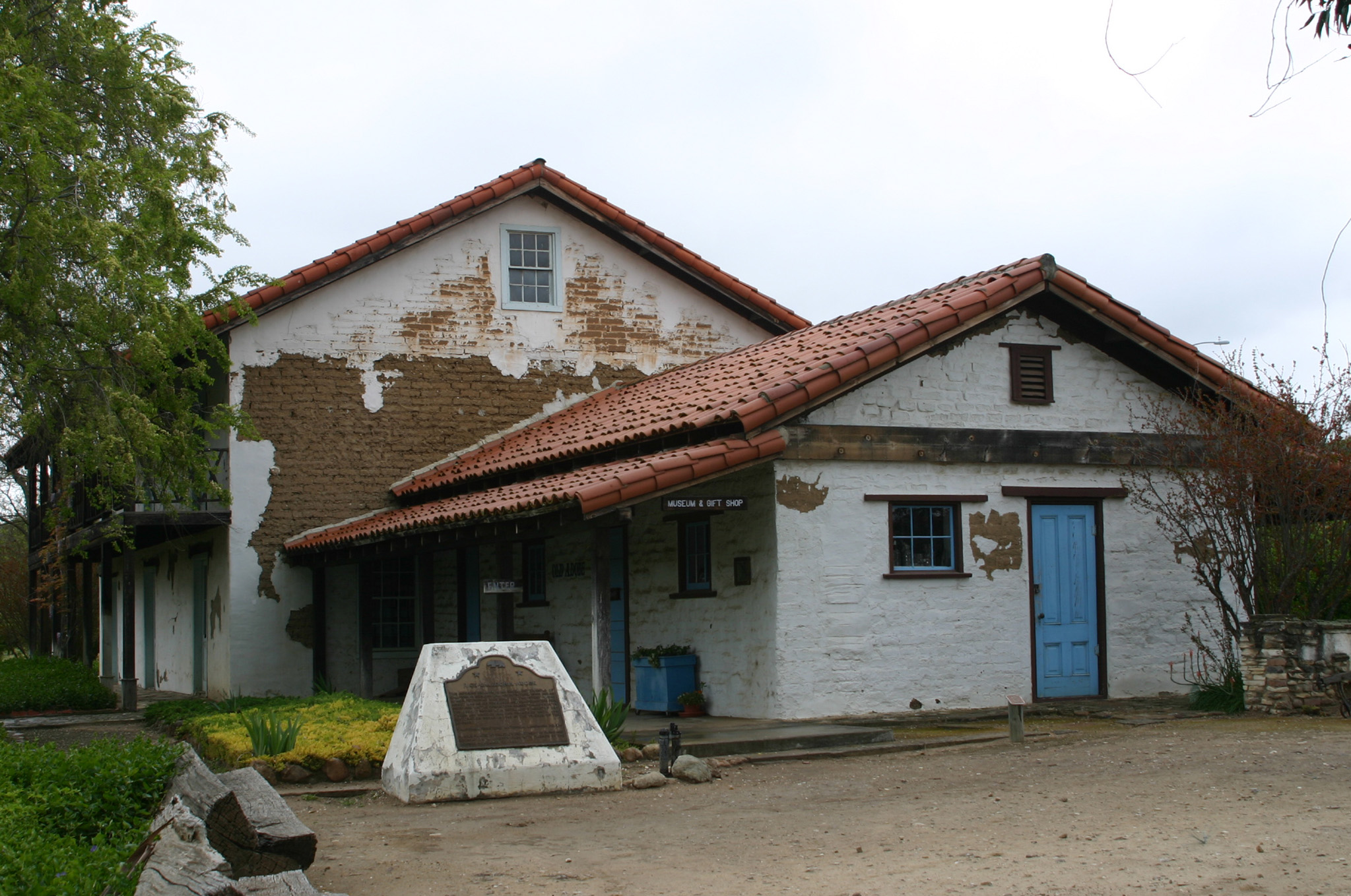 Rios-Caledonia Adobe north side (I mislabeled photo name)